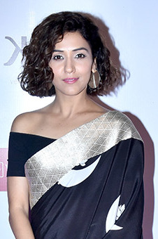 Neeti Mohan, Dadasaheb Phalke Film Foundation Awards 2018, Mumbai.